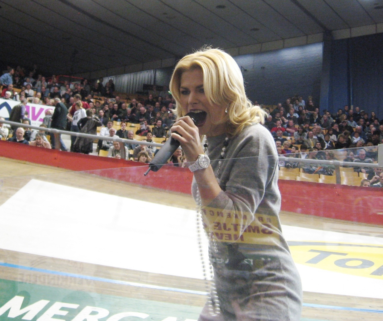 Tanja Dexters during her performance in the Six Days of Flanders-Ghent 2008